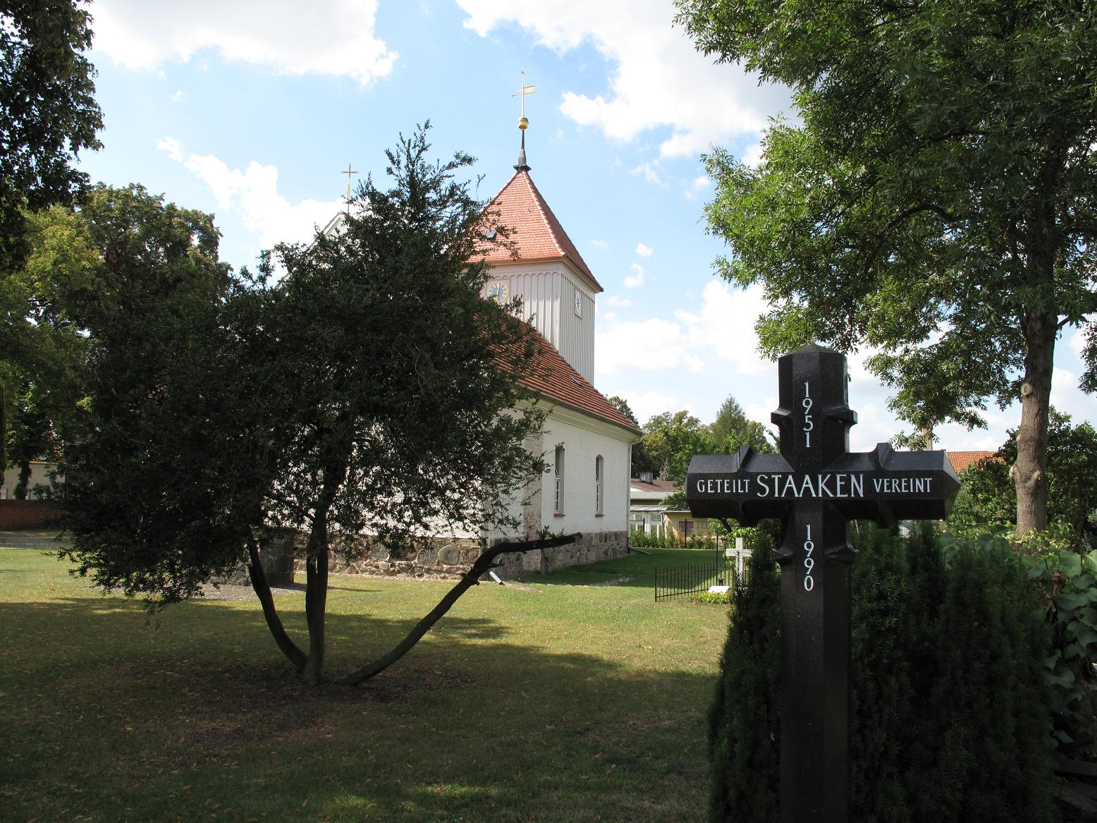 Village church in Berlin-Staaken. The cross commemorates to the division Staaken’s from 1951 to 1990. The church was situated directly next to the Inner German border